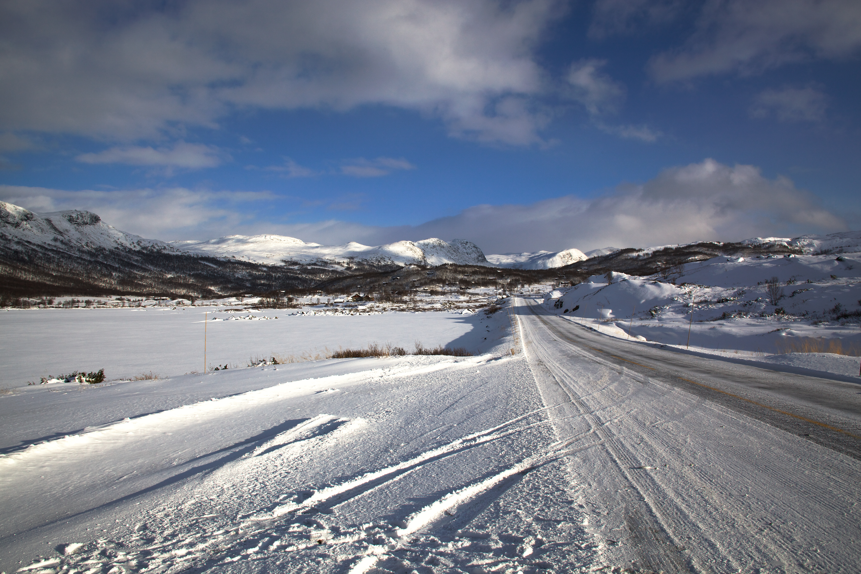 E16 near Øvre Smed-dalsvatn